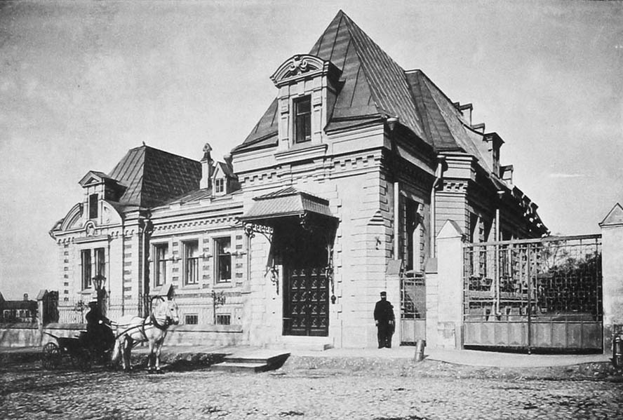 Schmit House, by Pyotr Boytsov